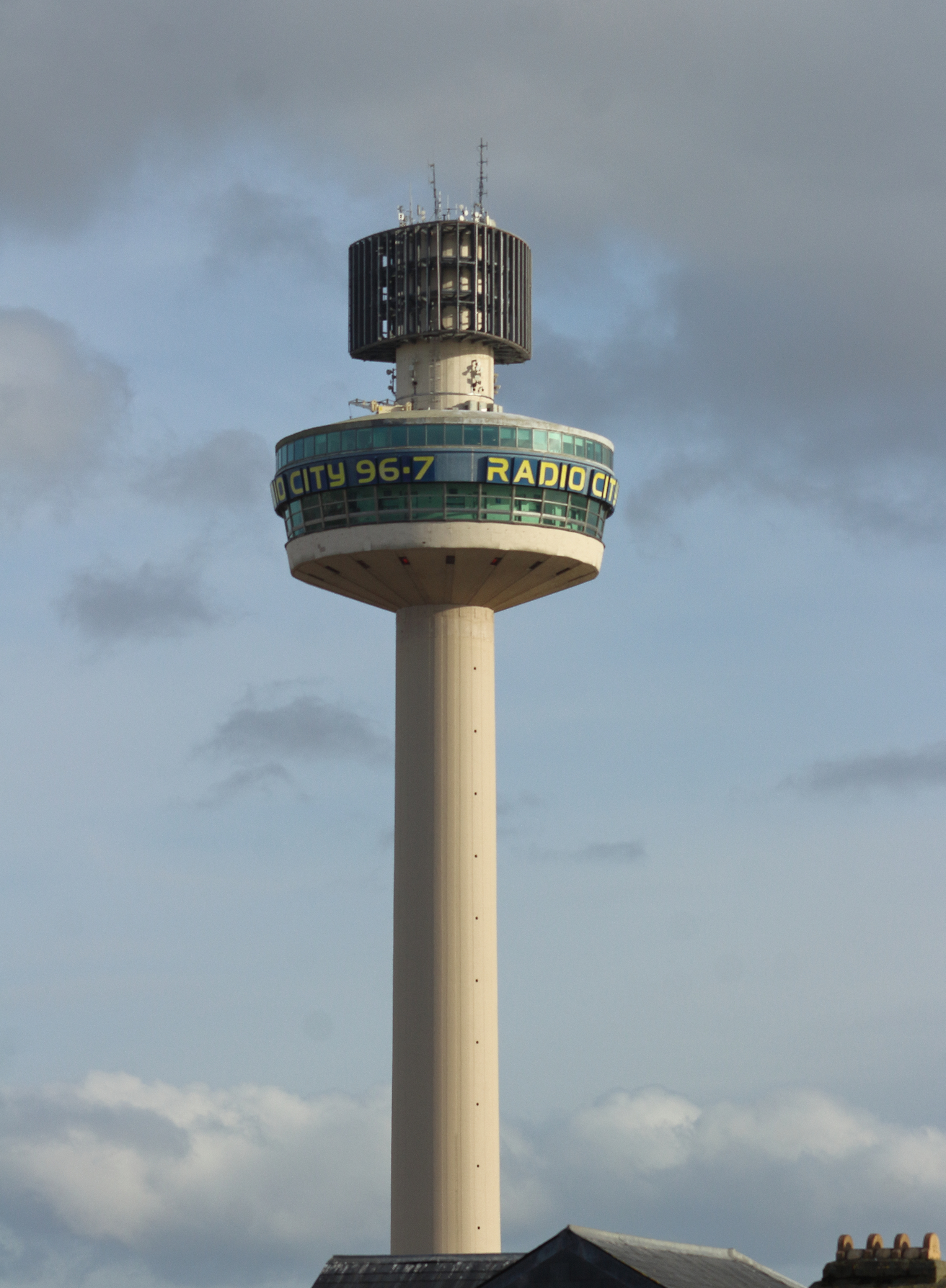 View southeast from QPark on Vernon Street.